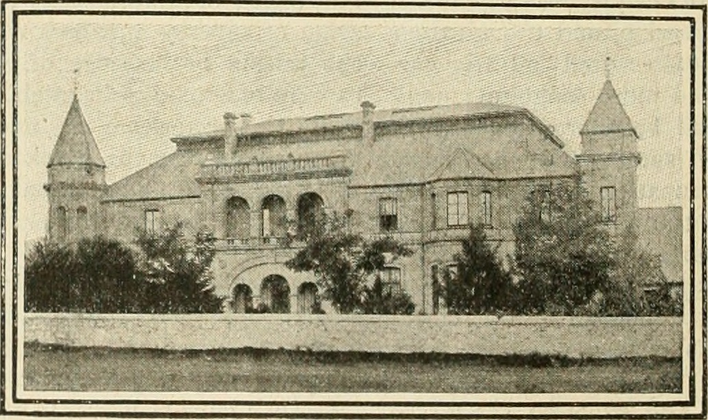 The Presidency, Bloemfontein - page 321 of "Battles of the nineteenth century" (1901)